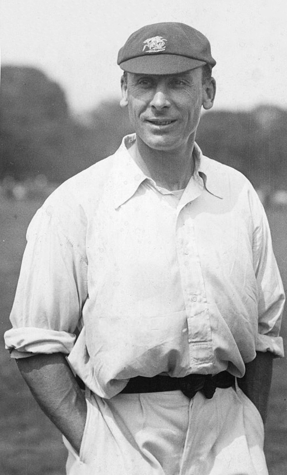 circa 1925: Sir Jack Hobbs (1882 - 1963), English cricket player